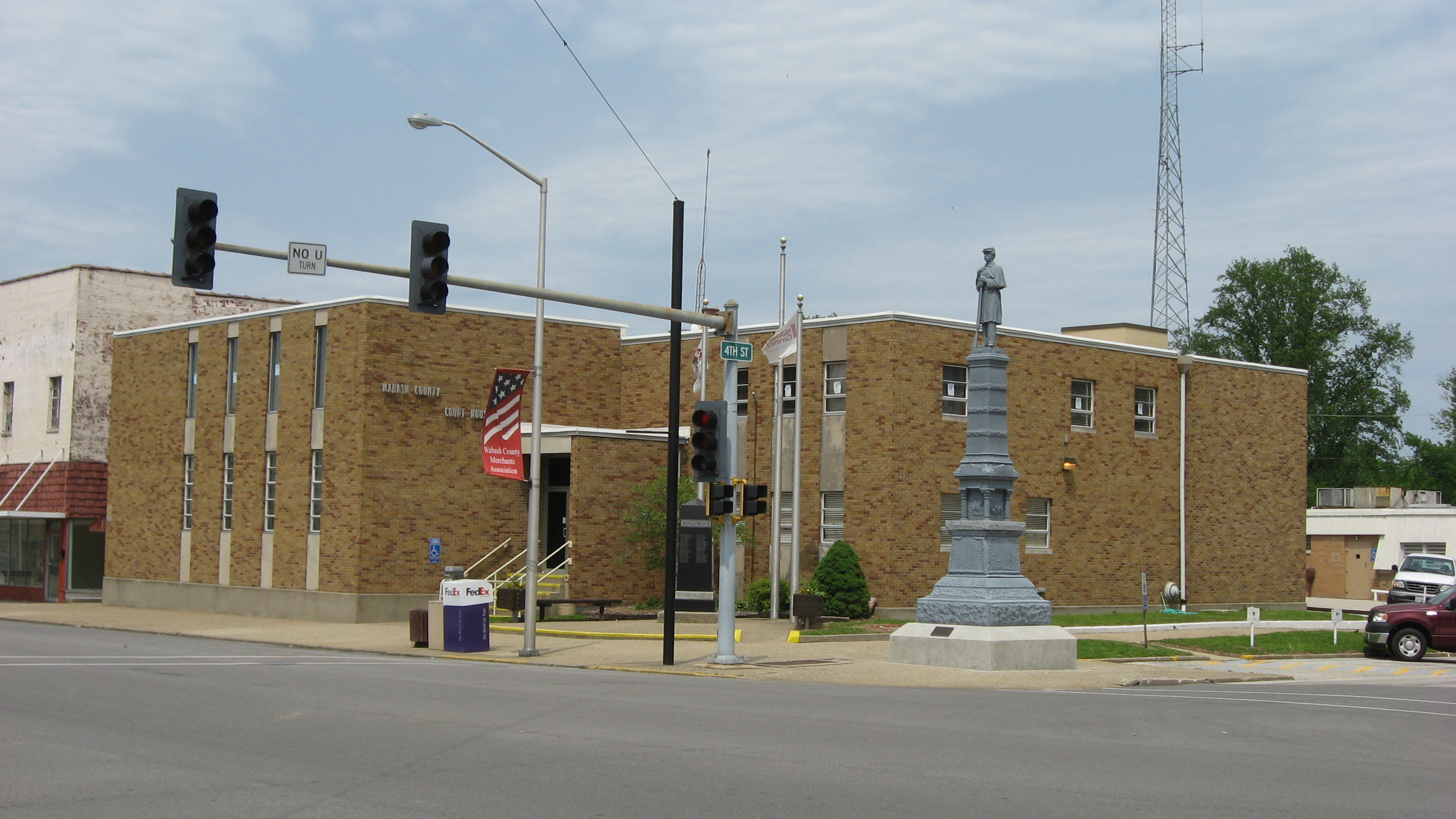 Front of the Wabash County Courthouse, located on the northeastern corner of the junction of Market and Fourth Streets in downtown Mount Carmel, Illinois, United States, and built in 1959. Note the GAR memorial statue to the left of the center of the courthouse.